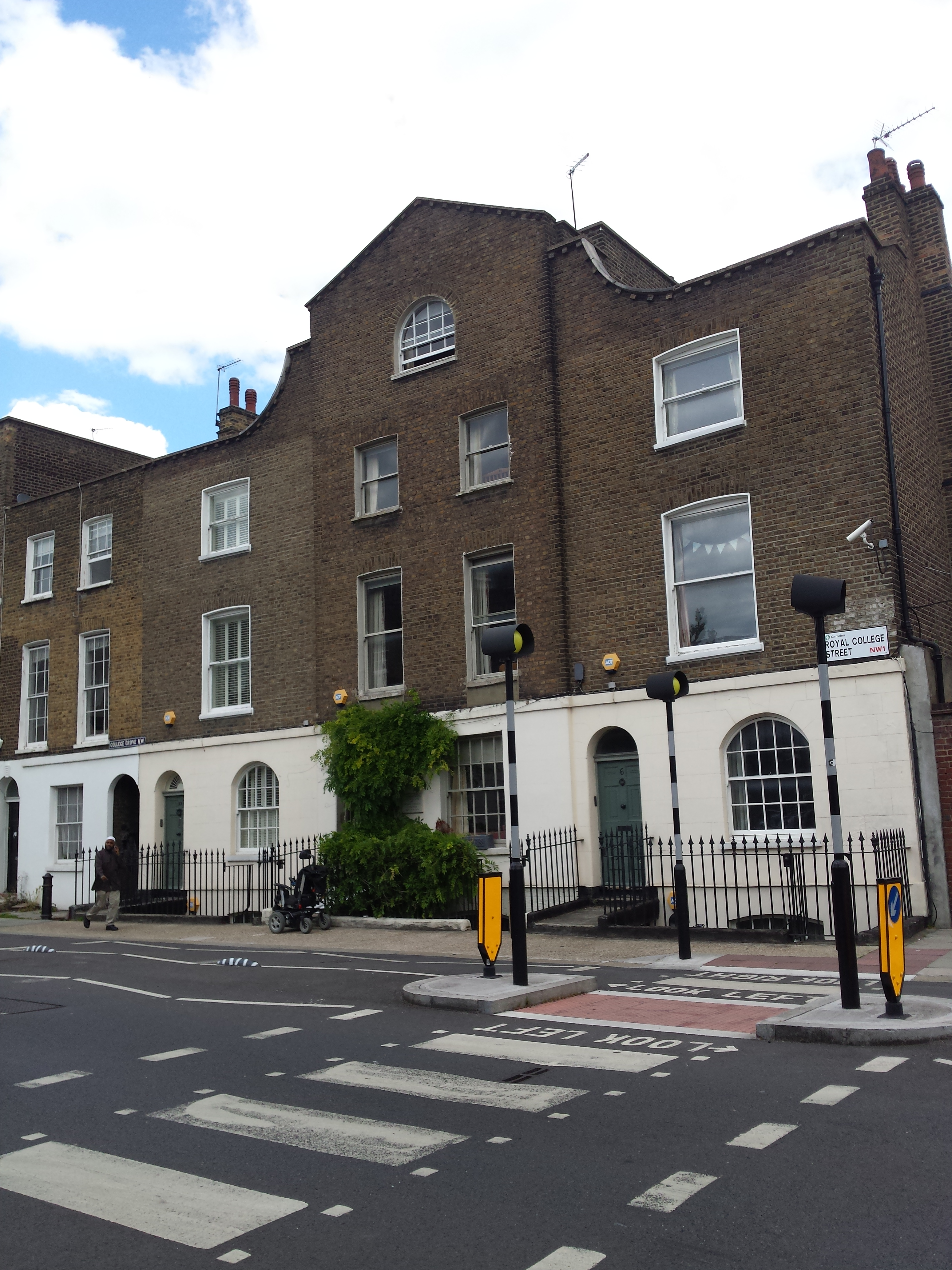 Exterior of 8 Royal College Street, the Rimbaud and Verlaine poetry house